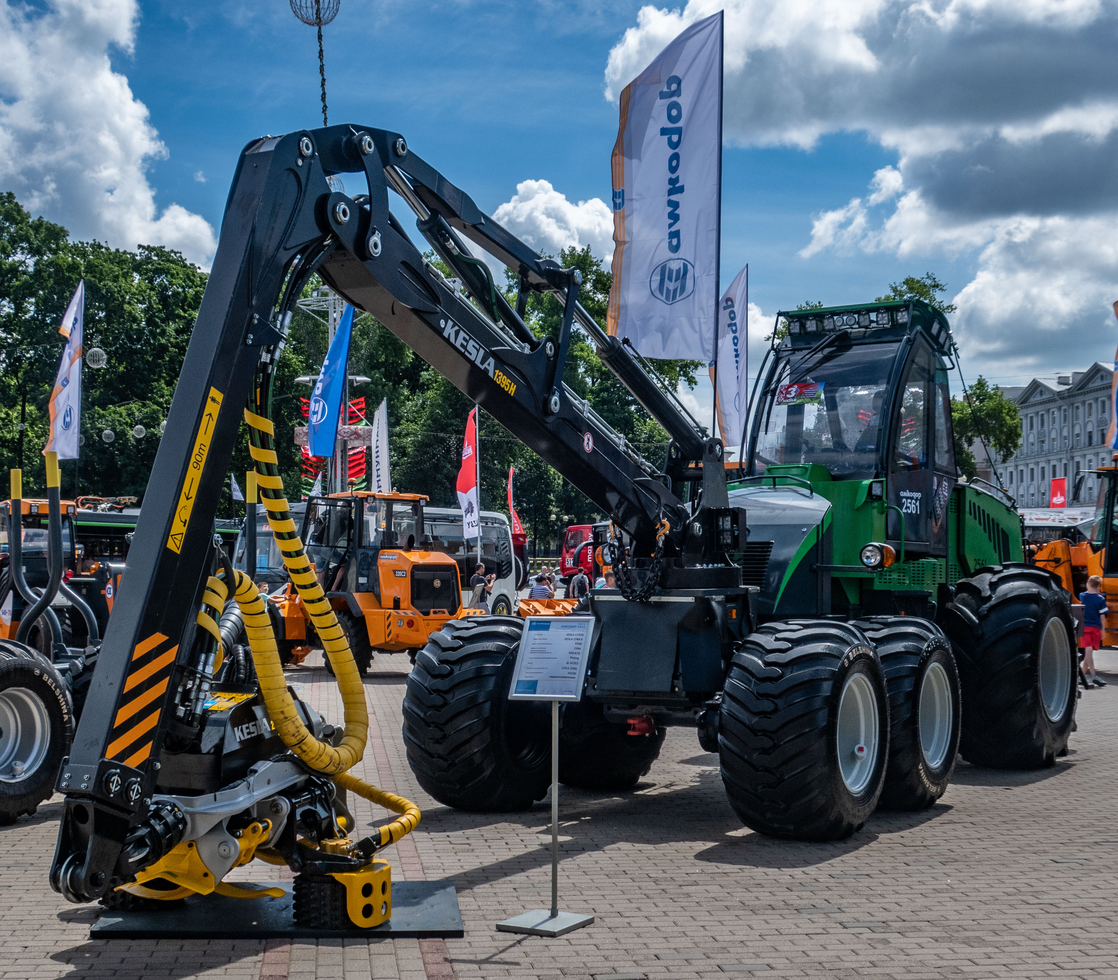 Amkodor forest harvester. Minsk, Belarus